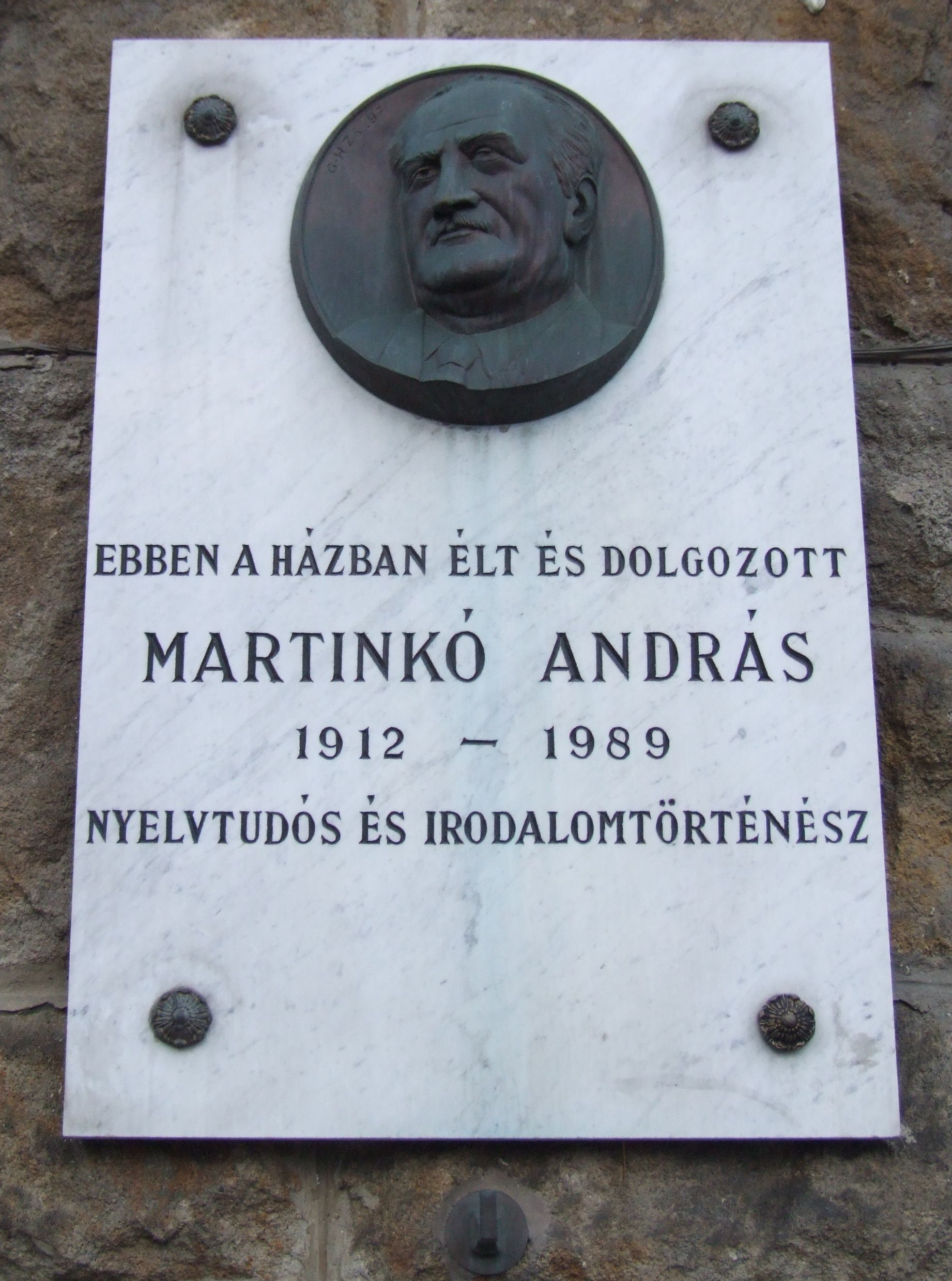 András Martinkó commemorative plaque in Budapest District I, Attila Street No 91. Creator: Zsolt Gulácsy-Horváth.